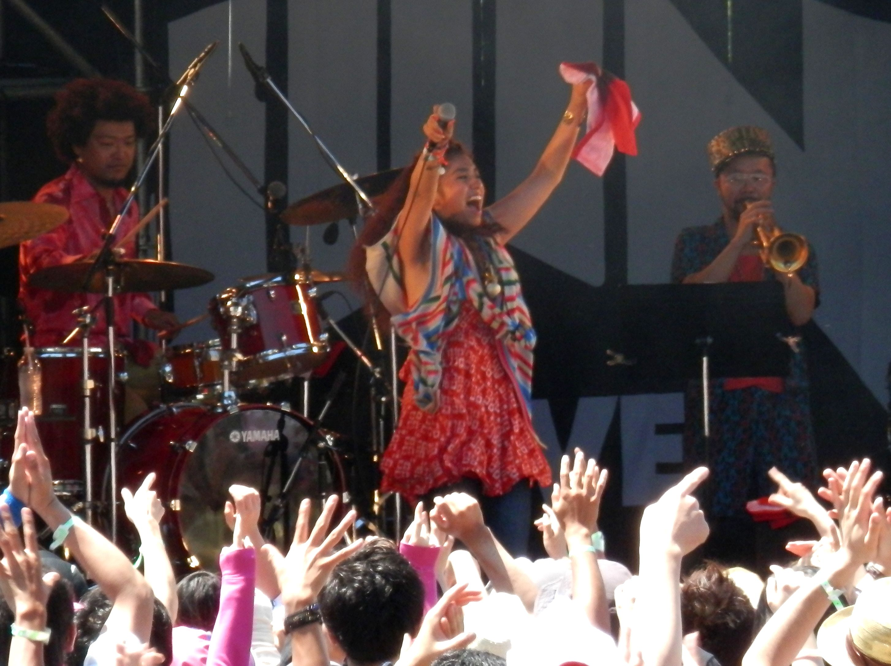 Miho Fukuhara at Join Alive rock festival in Iwamizawa, Hokkaido (June 21, 2013)